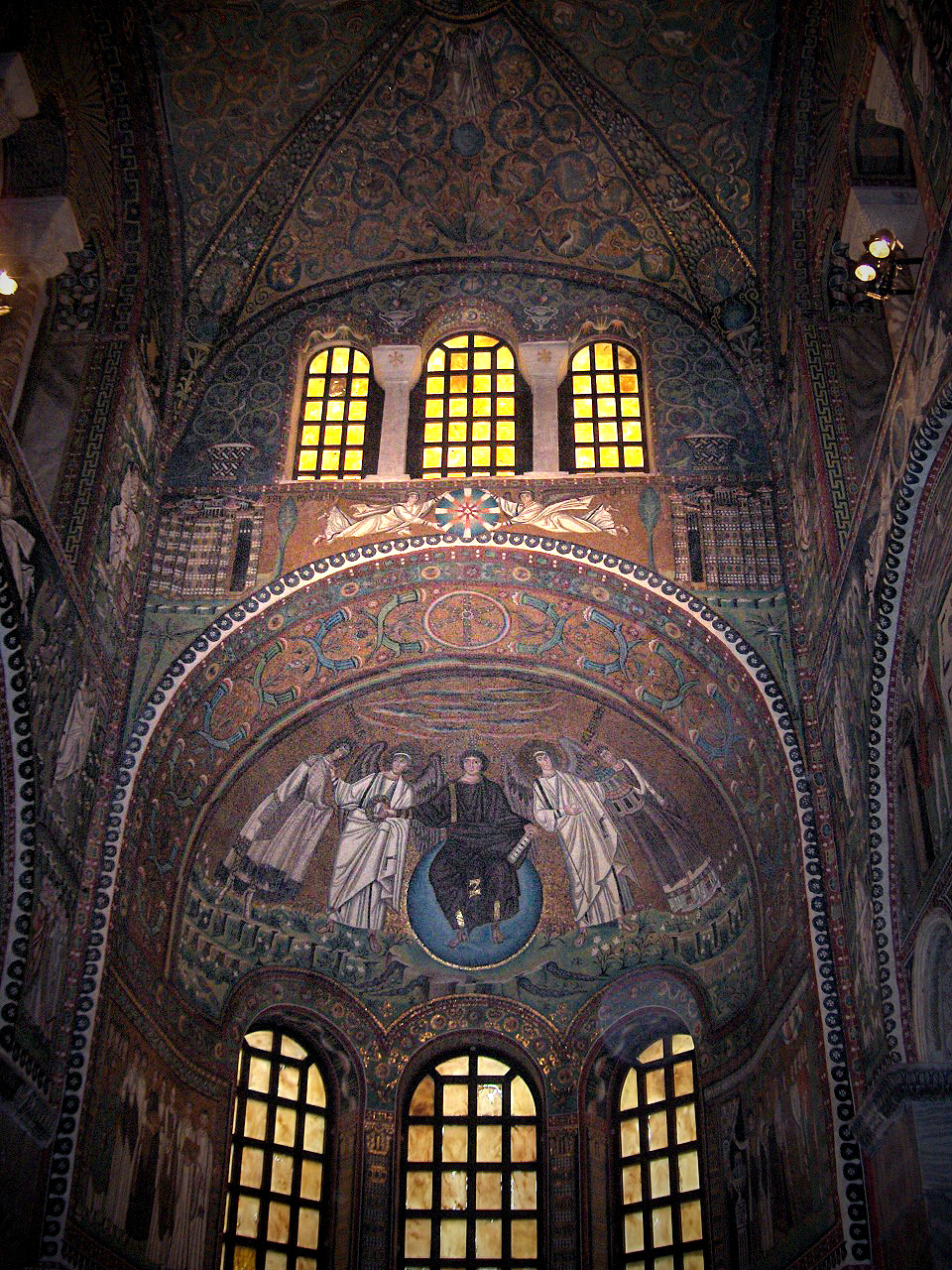 Choir with intrados: Christ offers the martyr crown to San Vitale, while an angel offers a model of the church to bishop Ecclesius; Basilica of San Vitale in Ravenna, Italy.